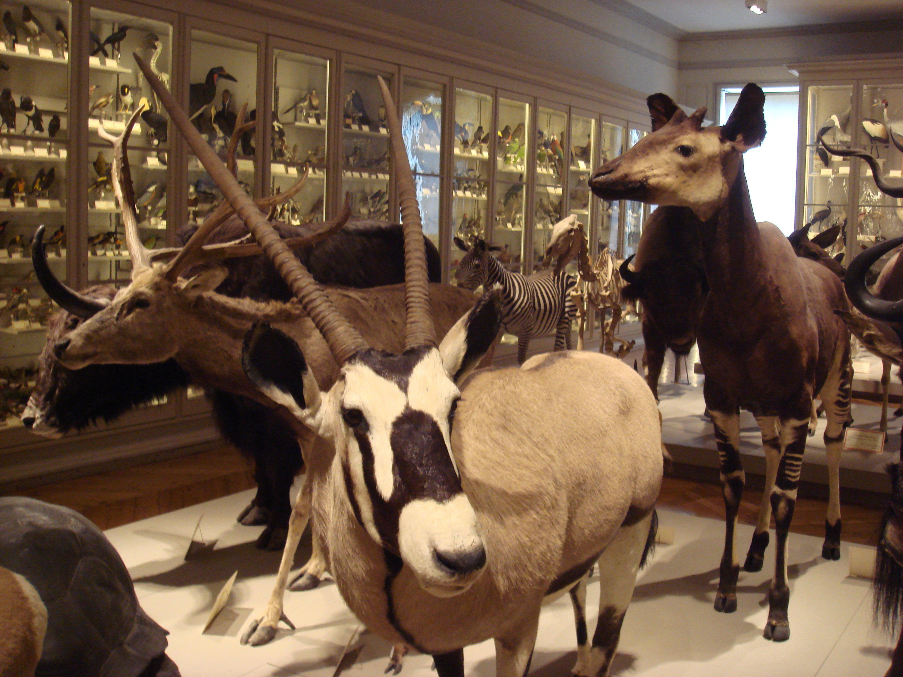 Museum_Histoire_Naturelle_animals_1